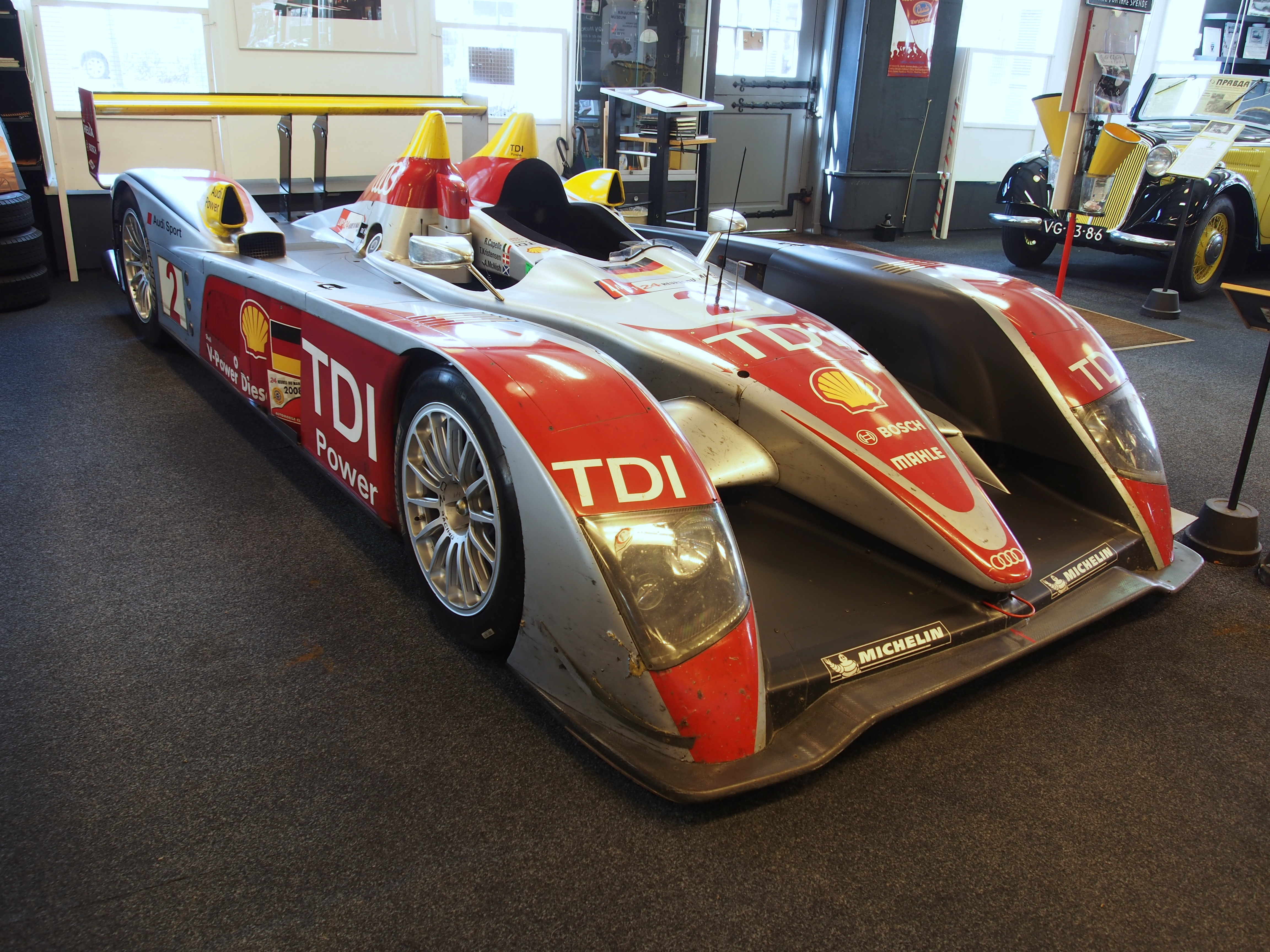 Photographed in the Auto-Union Museum in Bergen, The Netherlands.